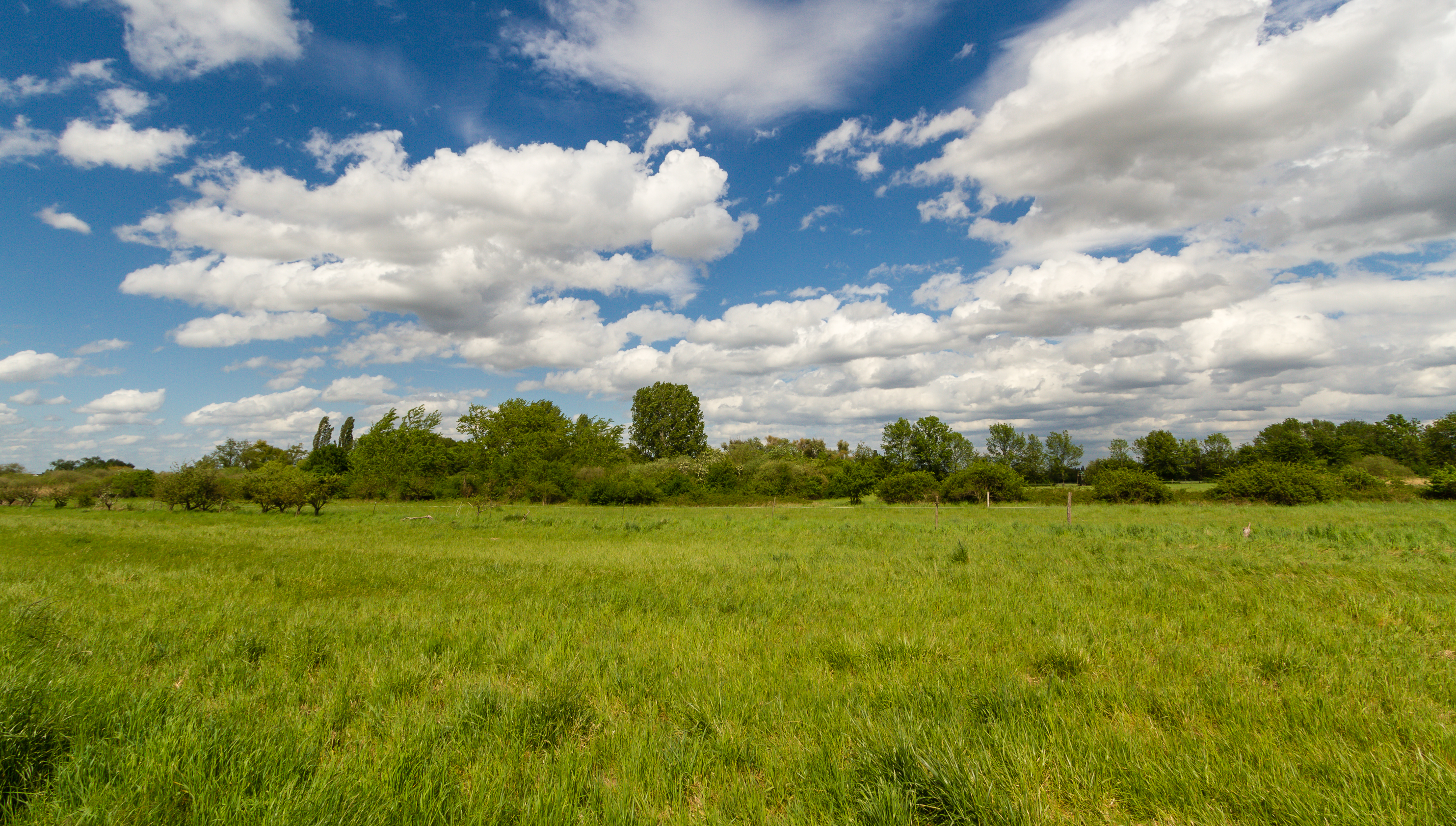 Title: Wet meadow in the Dürkheimer Bruch Type: Landscape protection area, Natura 2000 Landscape protection area number: 07-LSG-7332-010 Natura 2000 number: 6515-301 Designation: Bad Dürkheimer und Erpolzheimer Bruch Location: East of Bad Dürkheim, Im Bruch. Place: Bad Dürkheim, District Bad Dürkheim, Rhineland-Palatinate, Federal Republic of Germany Description: Meadow landscape of different humidity and cultivation intensity, puts through with ditches and shrubs.